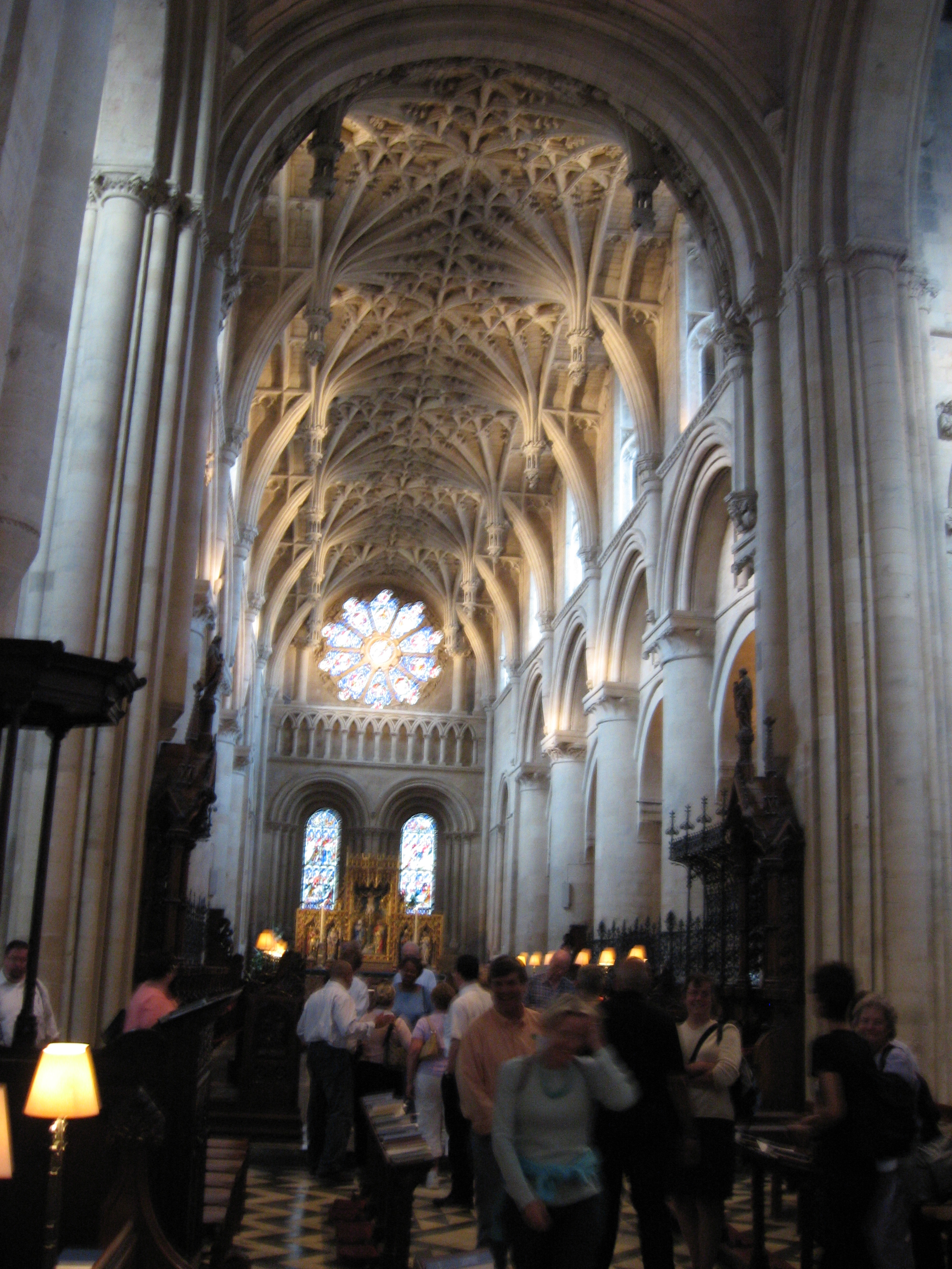 Christ Church Cathedral, Oxford